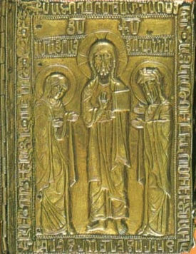 Deesis on the Gospel of Kostandin Bardzrberdtsi